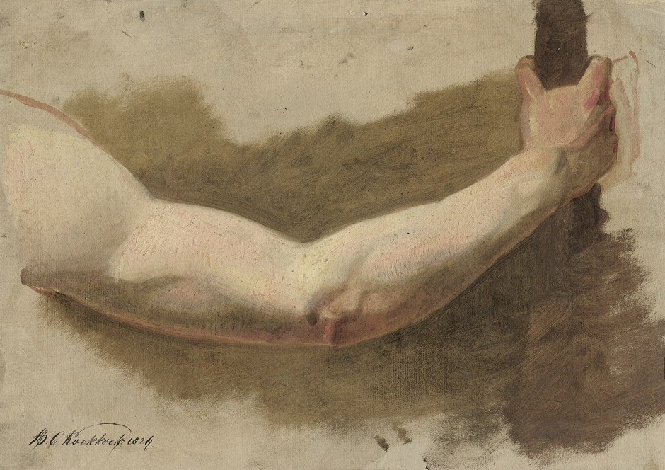 Barend Cornelis Koekkoek: Studie eines Arms. Öl auf hellgrau grundiertem Bütten. 30,9 x 43,4 cm. Unten links signiert und datiert "B. C. Koekkoek 1824." Barend Cornelis Koekkoek (1803–1862) DescriptionDutch painter and draughtsmanDate of birth/death11 October 18035 April 1862Location of birth/deathMiddelburgClevesWork locationHilversum (....-1826), Amsterdam (1828-1832), Hilversum (1833-1835), Beek, Ubbergen (1836), Cleves (1836-1862), Germany, Harz, Rhineland, BelgiumAuthority control : Q808081 VIAF: 64802408 ISNI: 0000 0000 6678 2966 ULAN: 500007947 LCCN: nr95026943 WGA: KOEKKOEK, Barend Cornelis WorldCat